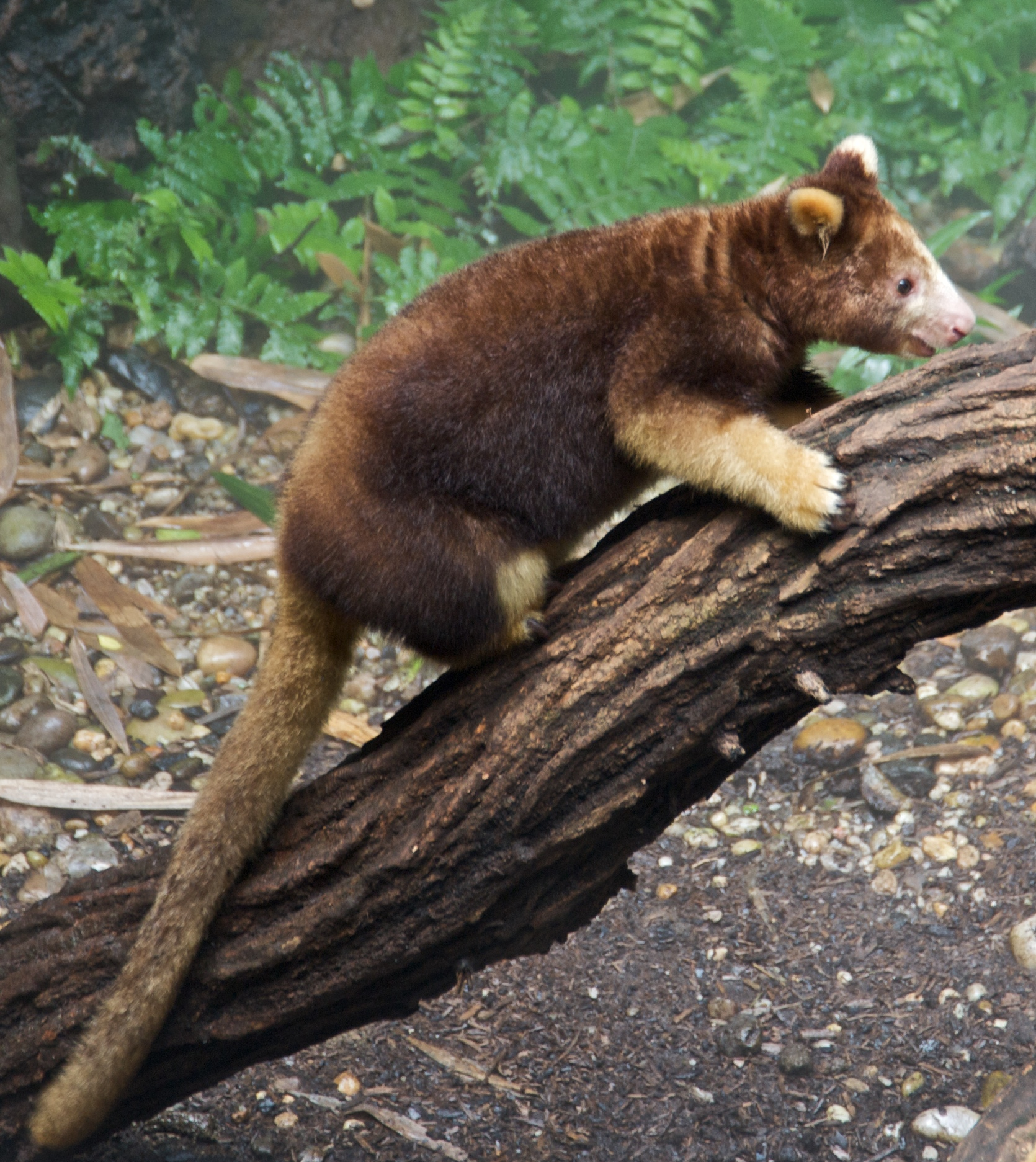 Matschie's Tree-kangaroo at the Bronx Zoo. This is a cropped version of File:Matschies tree kangaroo Dendrolagus matschiei at Bronx Zoo 1.jpg